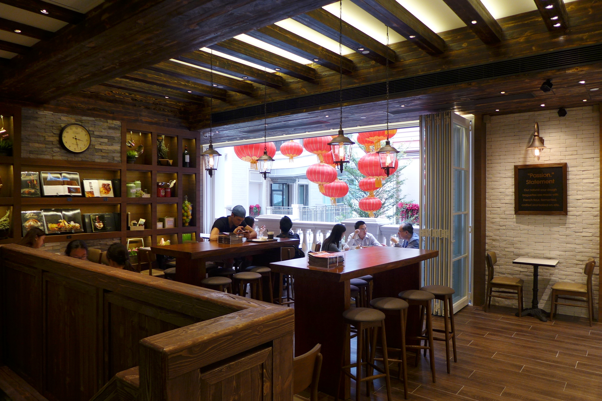 Passion by Gerard Dubois in Lee Tung Avenue